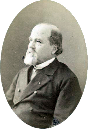 Alexandre Bertrand (1820–1902), French archaeologist; founder of the "Musée d'Archéologie Nationale" (Museum of National Antiquities) in Saint-Germain-en-Laye; professor of archaeology; member of Académie des Inscriptions et Belles-Lettres. Photograph by Georges Penabert, 1882.